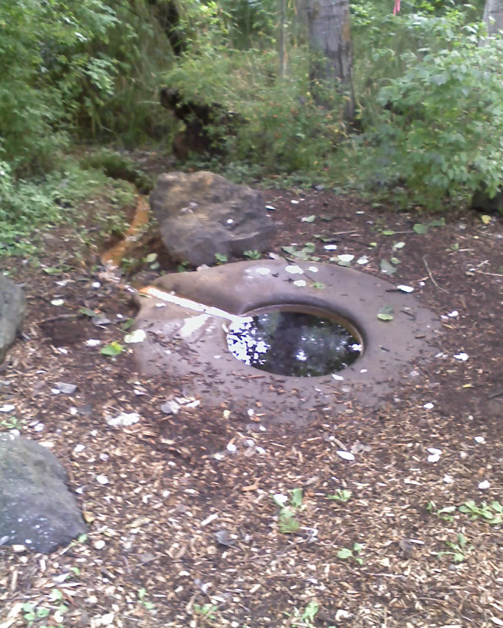 Licton Springs in the eponymous park and neighborhood in North Seattle, Washington